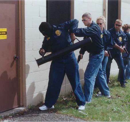 US Army CID special agents performing a raid.